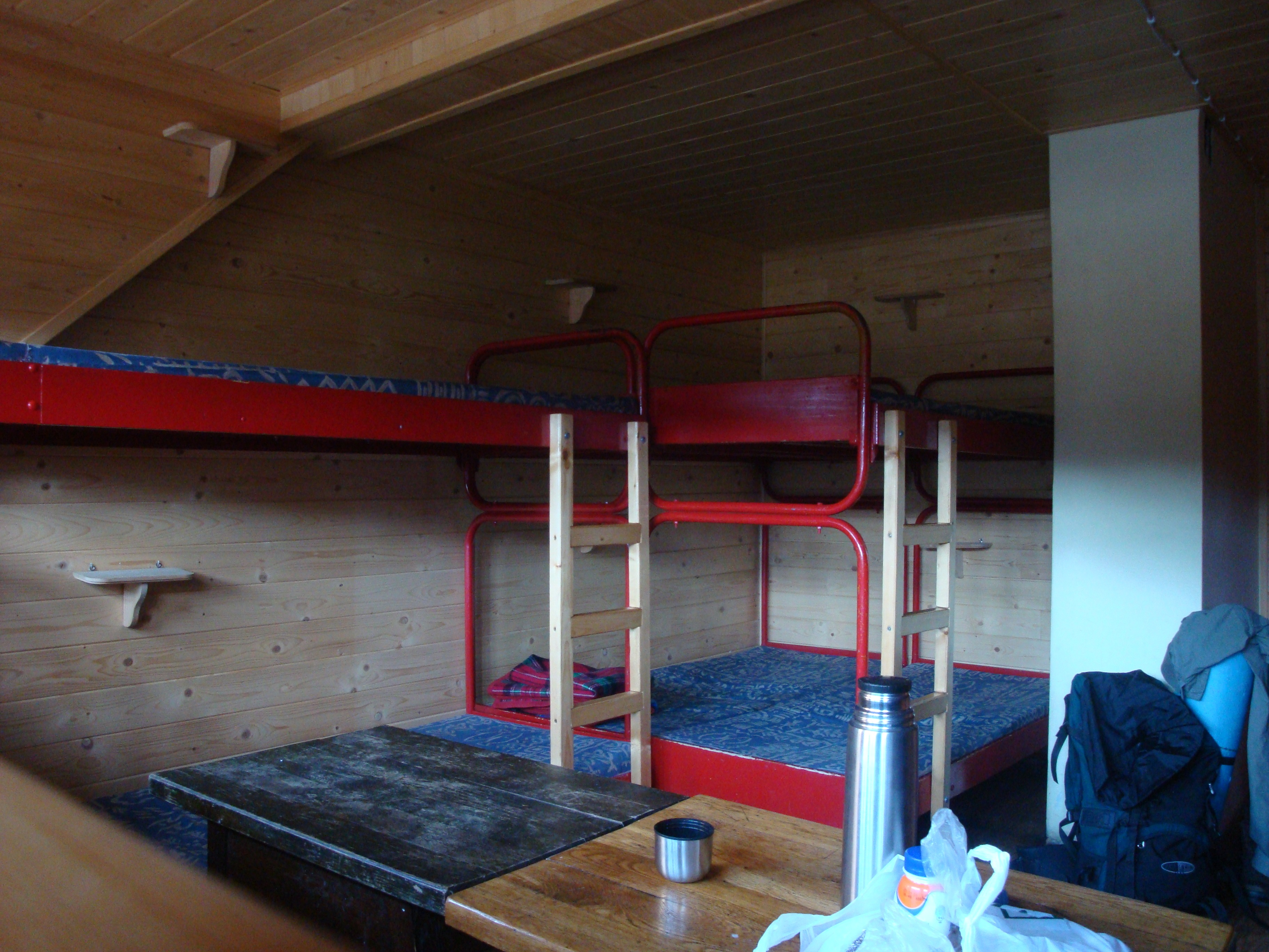 Mountain hut (hostel) in Doilina Piecu Stawów (Polish Tatra Mountains). 12 person room.